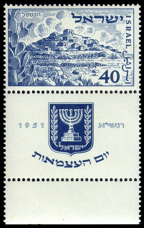 Third Independence Day stamp - 40 mil - The Castle. Inscription on tab: "Independence Day 5711 - 1951"